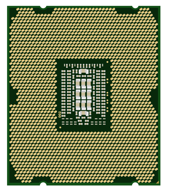 Intel's FCLGA 2011 package bottom view drewing (Core i7 Extreme Edition, Sandy Bridge-E)